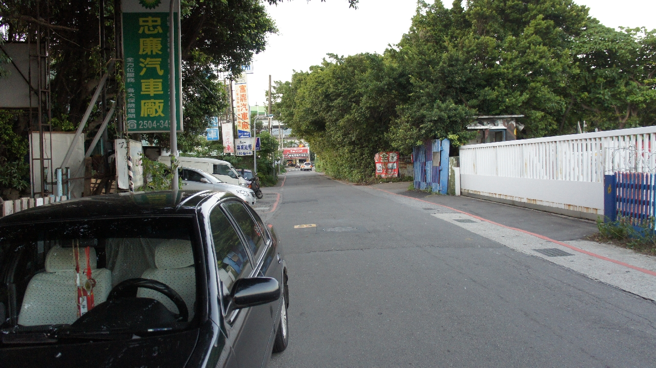 North Area Of Ln.180 Binjiang St